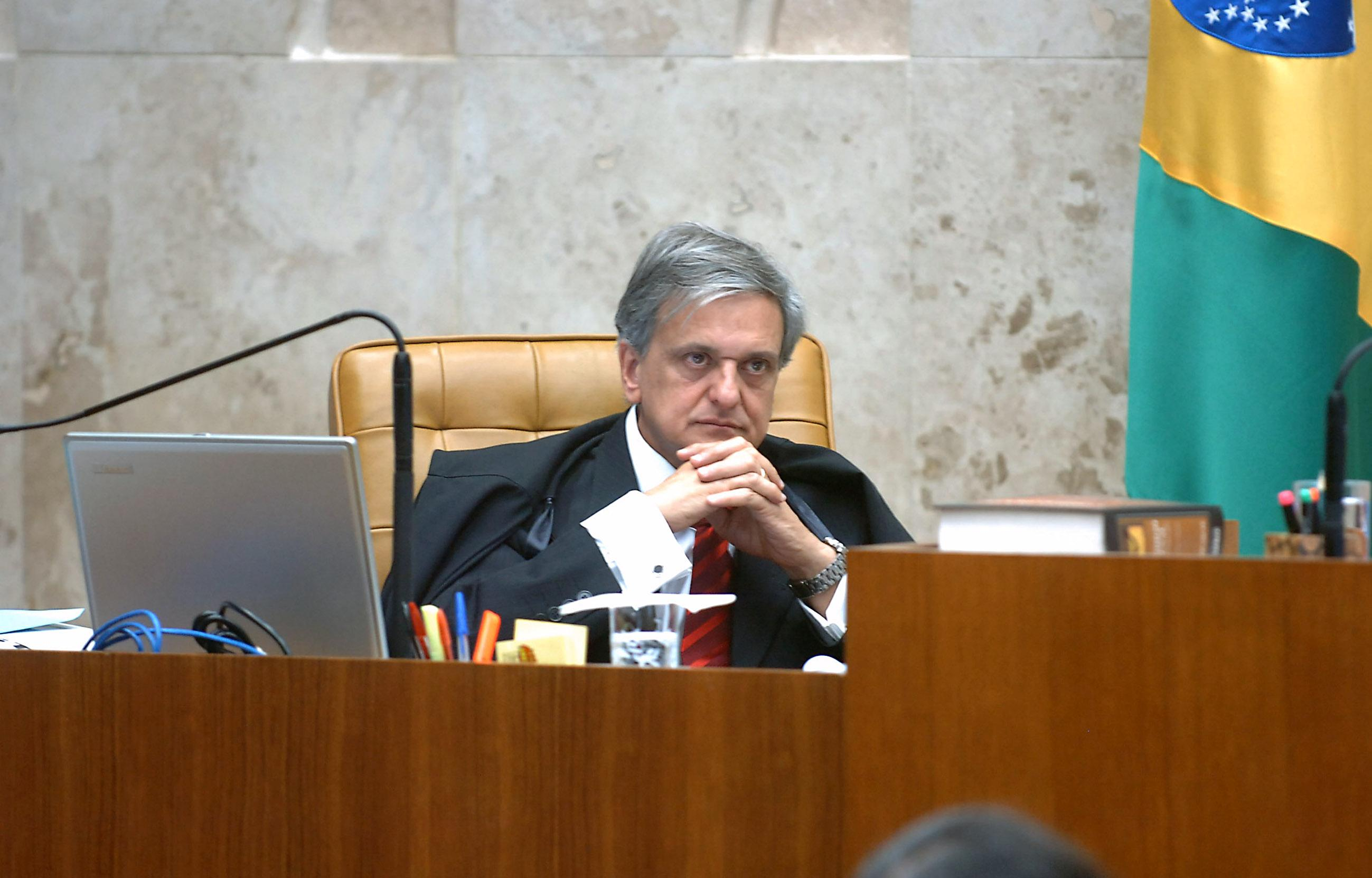 The Attorney General of the Republic, Antonio Fernando, participates in the session that judges the indictment of the Federal Public Ministry (MPF) against 40 people accused of involvement in the case of the monthly allowance scandal